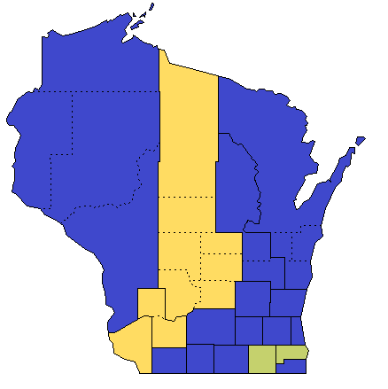 Map of the partisan makeup of the Wisconsin Senate in 1849 Democratic: 14 seats Free Soil: 2 seat Whig: 3 seats